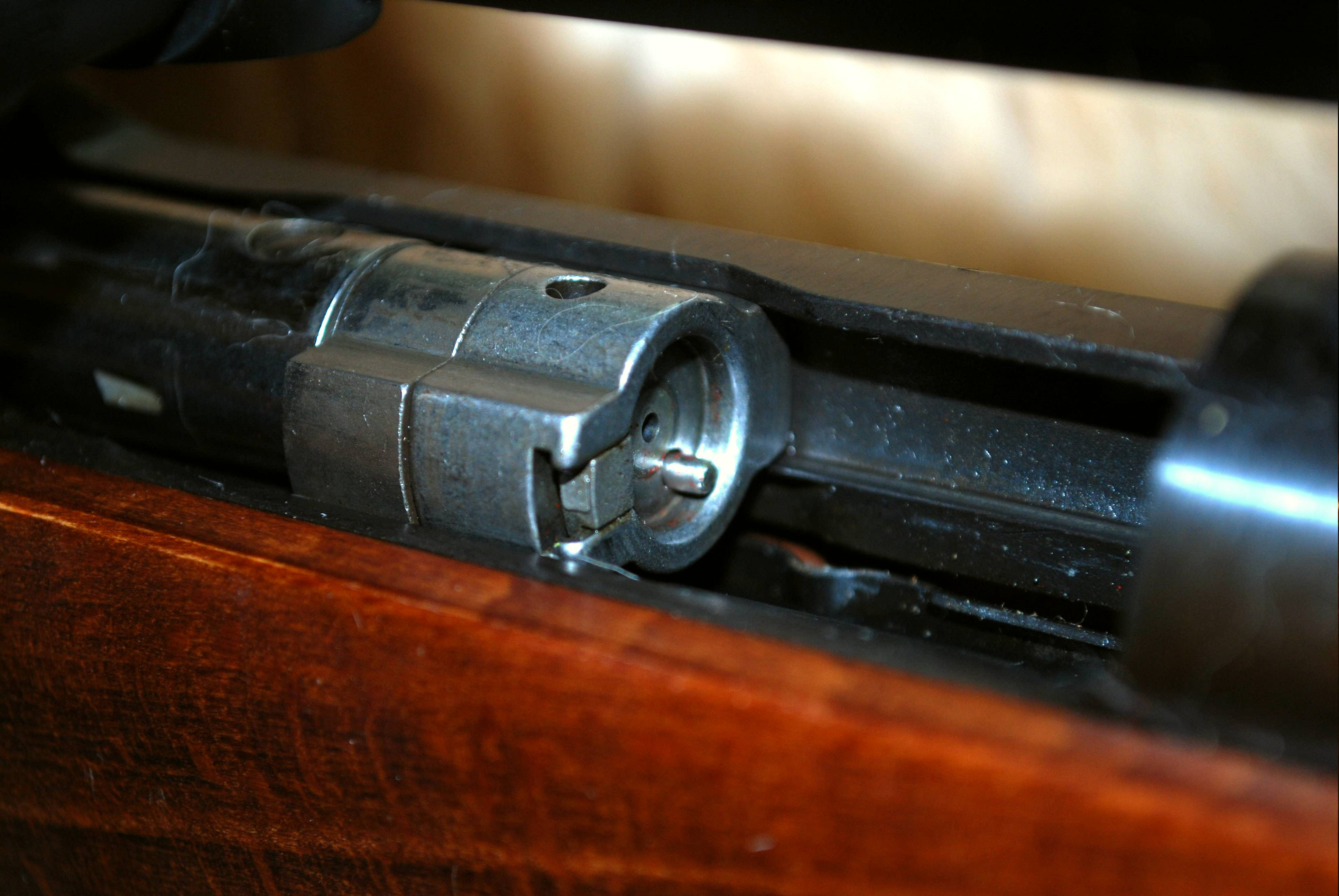 Close-Up of the Bolt of a Savage Model 110